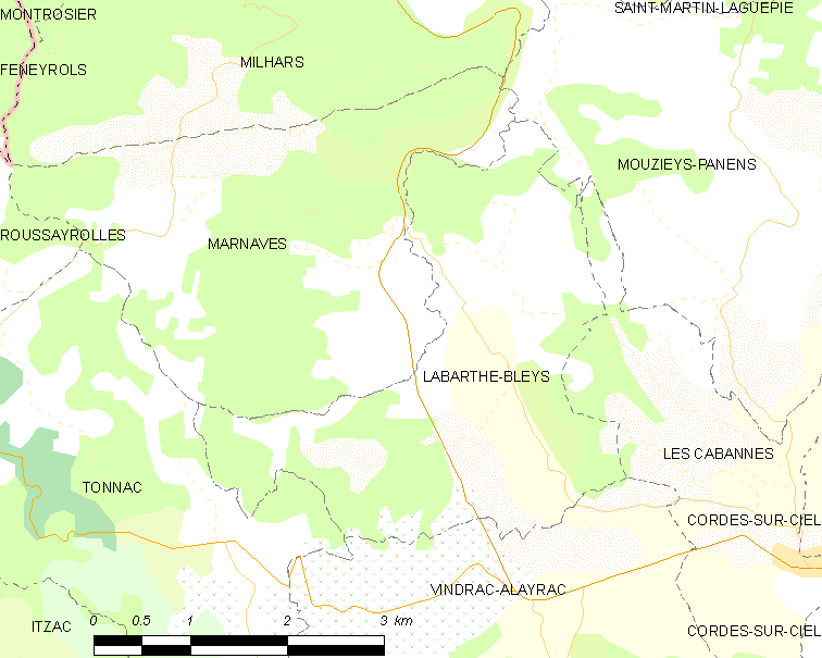 Map of French municipality Labarthe-Bleys